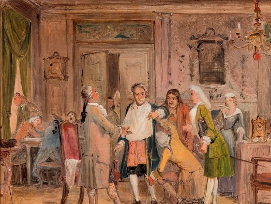 Vielgeschrey’s hardships, scene from L. Holberg’s “Den stundesløse,” Act 1, Scene 6 (sketch), before 1850 Oil on canvas, 31 x 39 cm. Acquired 1908